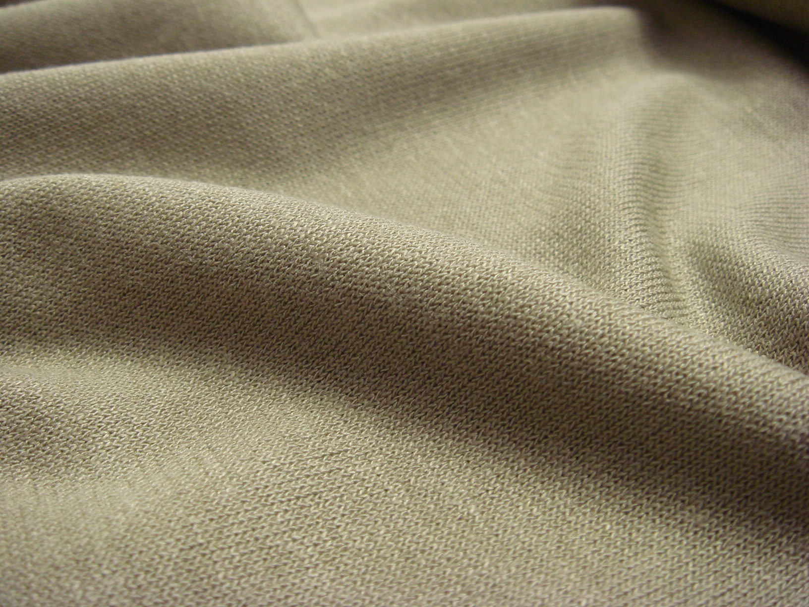 Interlockjersey, jersey, fabric, material, stoffe